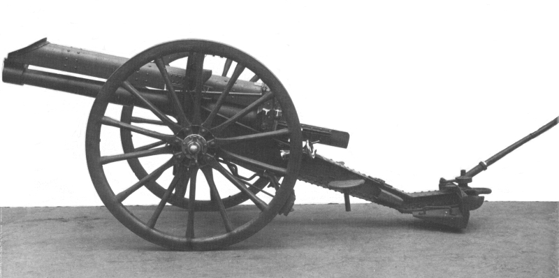 BLC 15 pounder field gun. Ordnance manual staged photograph.